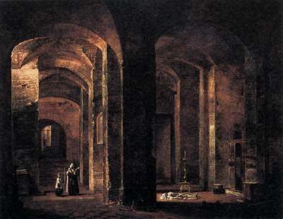 Permission from